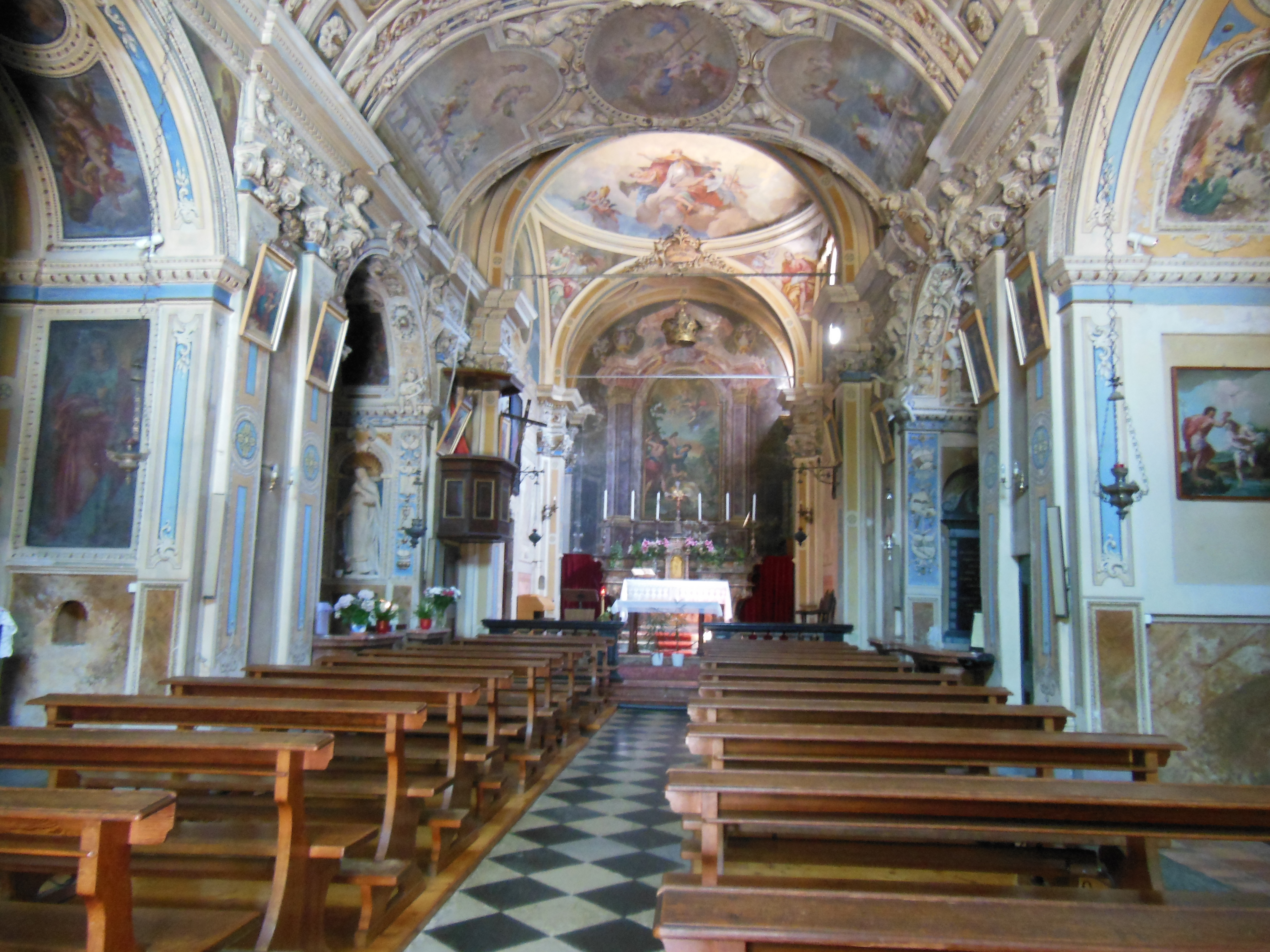 The interior of the Church of San Vigilio in Gandria, on Lake Lugano in Switzerland. For more information, see the Wikipedia article Gandria.